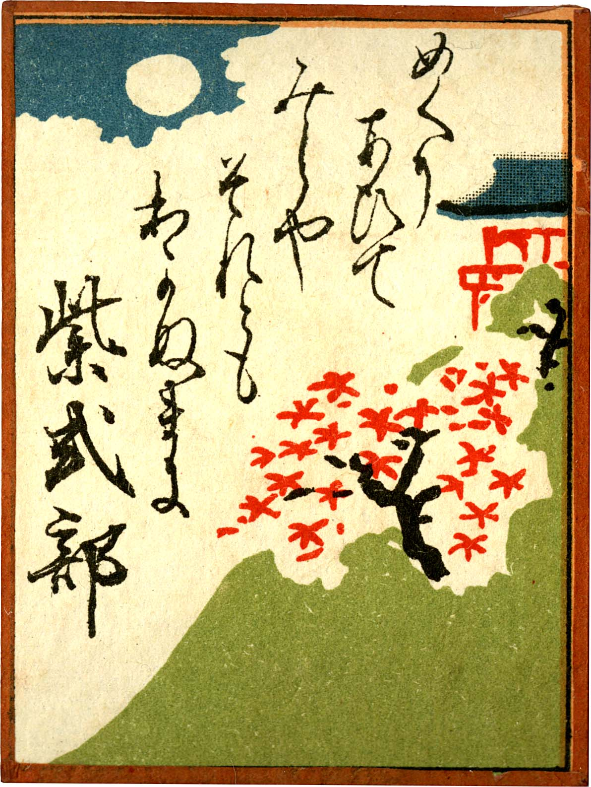 Reminder: No known copyright restrictions. Please credit UBC Library as the image source. For more information see Japanese Title: 百人一首 [小倉百人一首] Date: Meiji 42 [1909] Creator: Nakamura fusetsu k_an Access Identifier: Mostow_056 Source: Original Format: Professor Joshua Mostow Private Collection. One Hundred Poets (Hyakunin isshu) Collection. Permanent URL